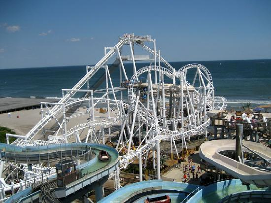 Contributing, again.